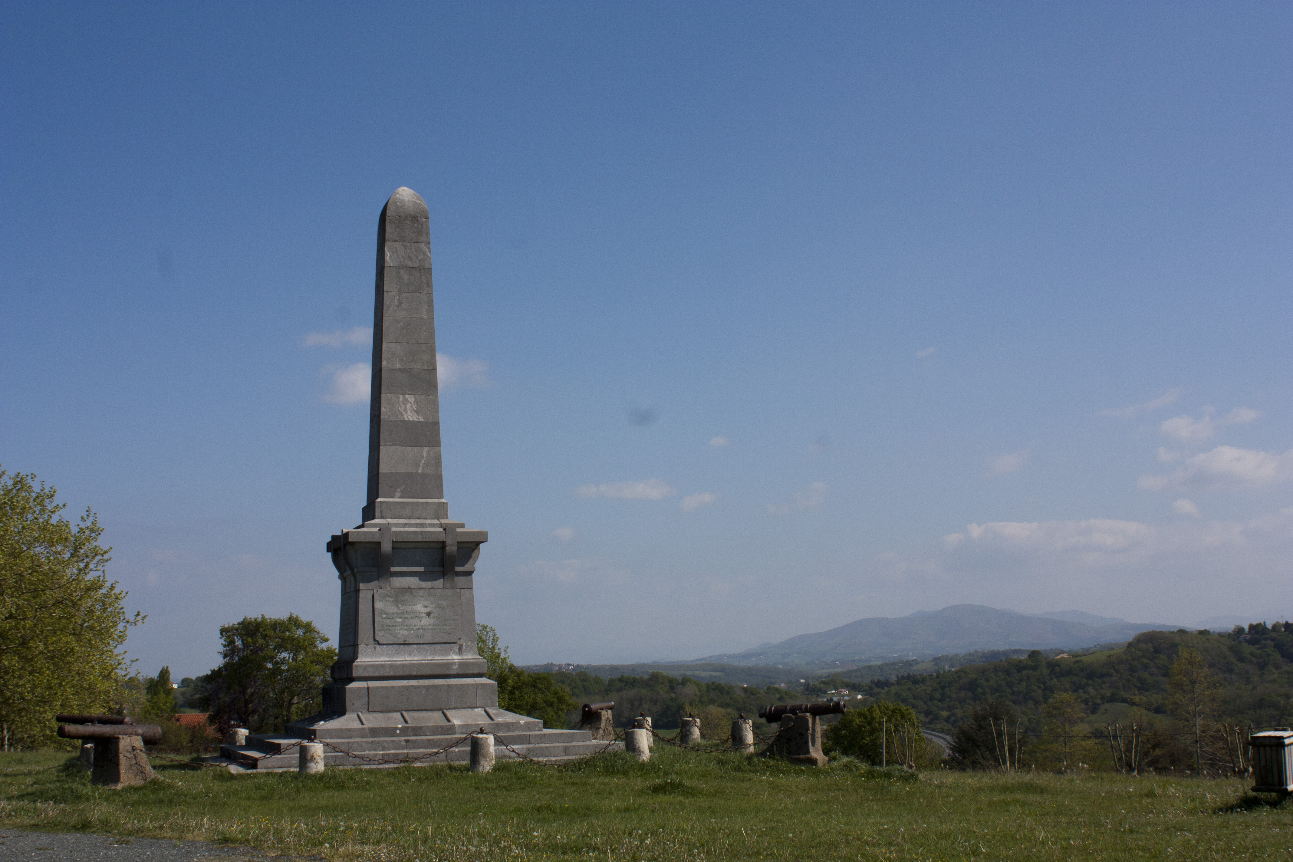 View of the Ursuya mountain from the cross of Mouguerre.